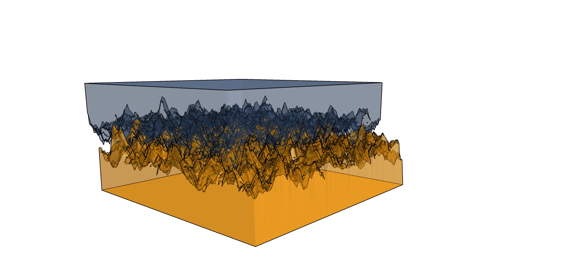 Two blocks with rough surfaces being sheared relative to one another to illustrate the concept of friction